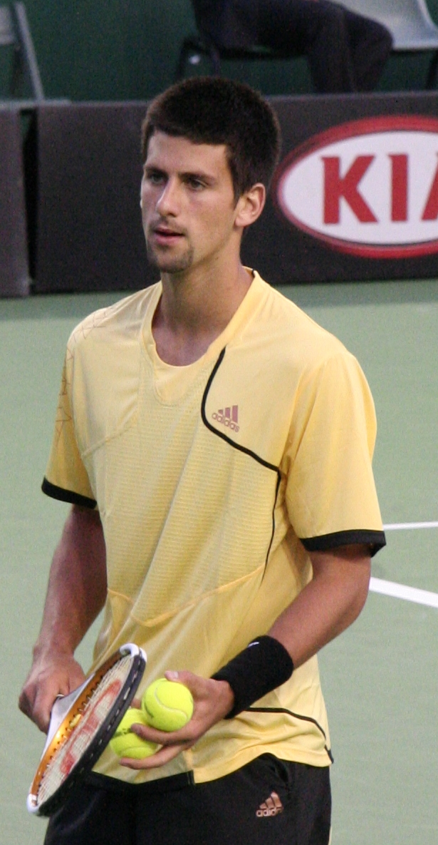 Novak Djokovic at their first-round match of the 2007 Australian Open.